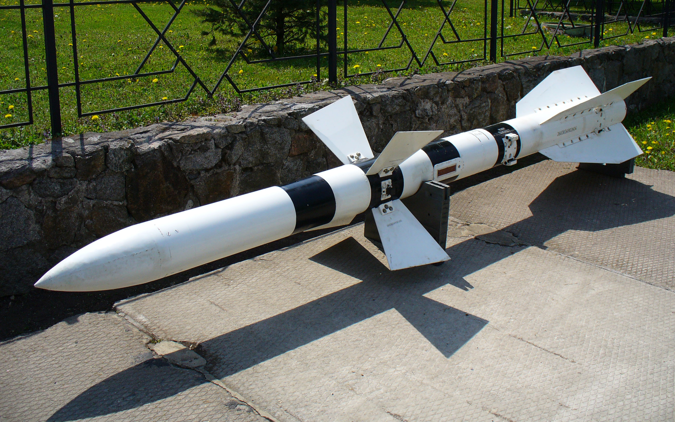 Missile R-27R. Ukrainian Air Force Museum in Vinnitsa.